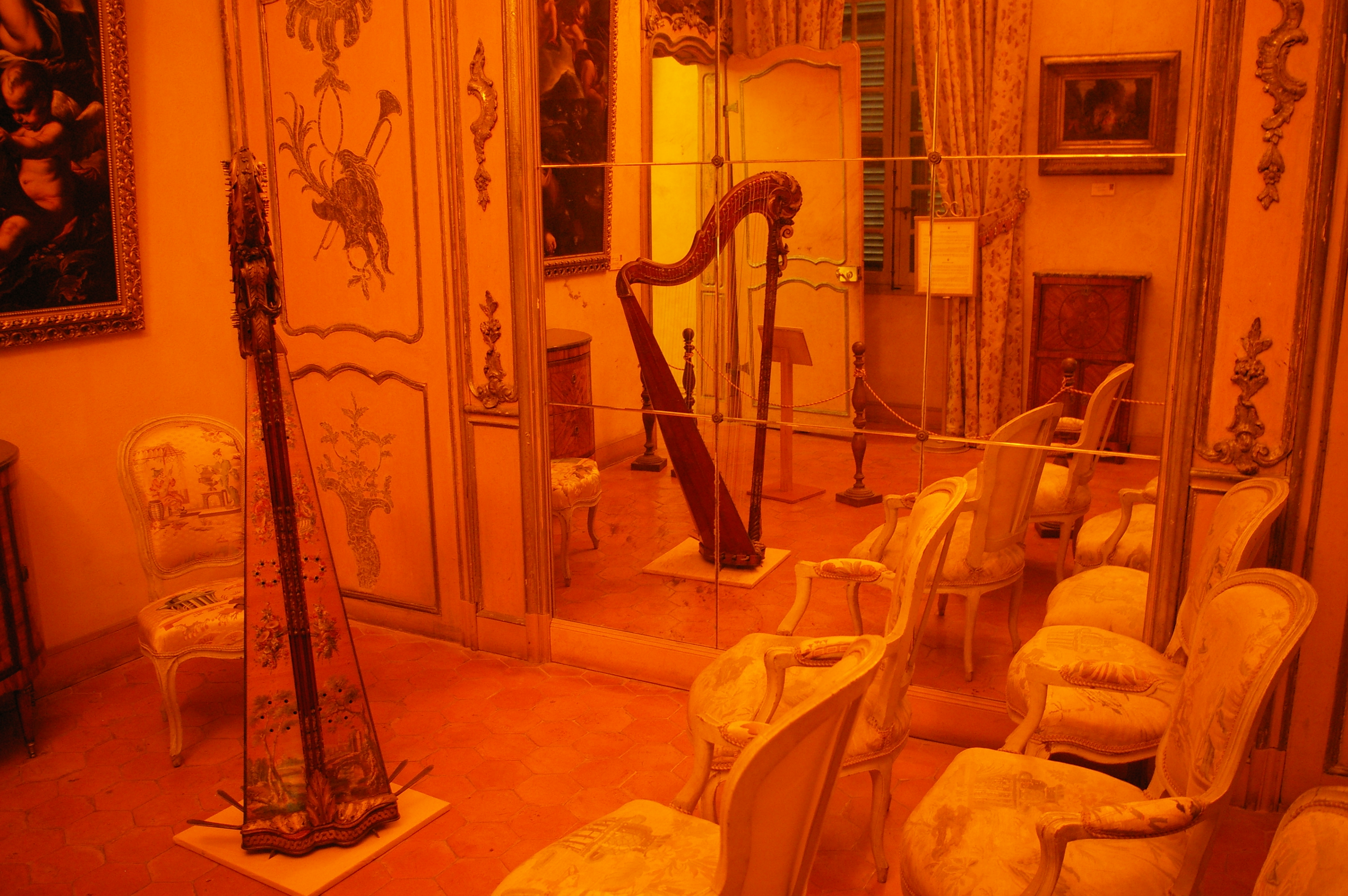 A room with a harp in the palais Lascaris in Nice, France.